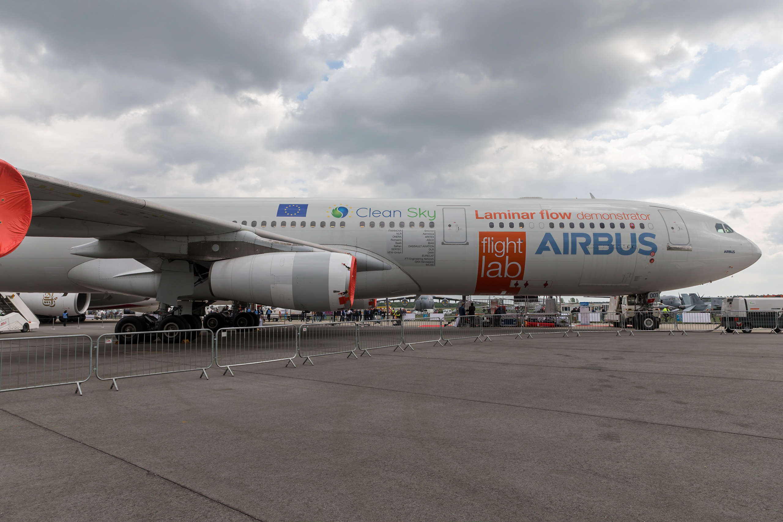 ILA 2018